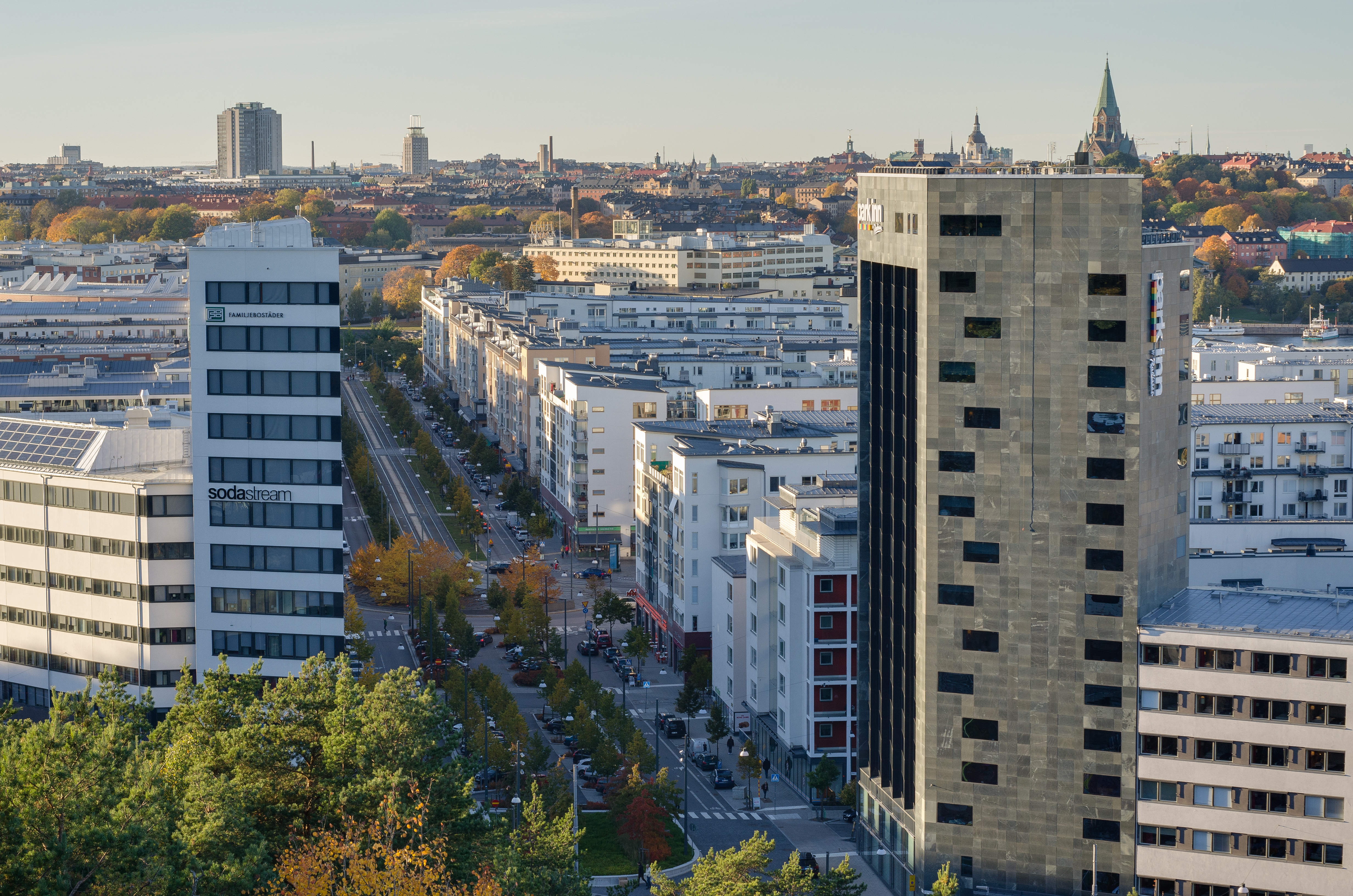 Södra Hammarbyhamnen, Stockholm. View from Hammarbytoppen. In the background, Södermalm and Stockholm city centre.